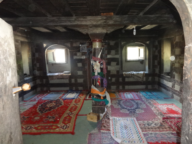 Amburik Mosque This is a photo of a monument in Pakistan identified as the GB-19